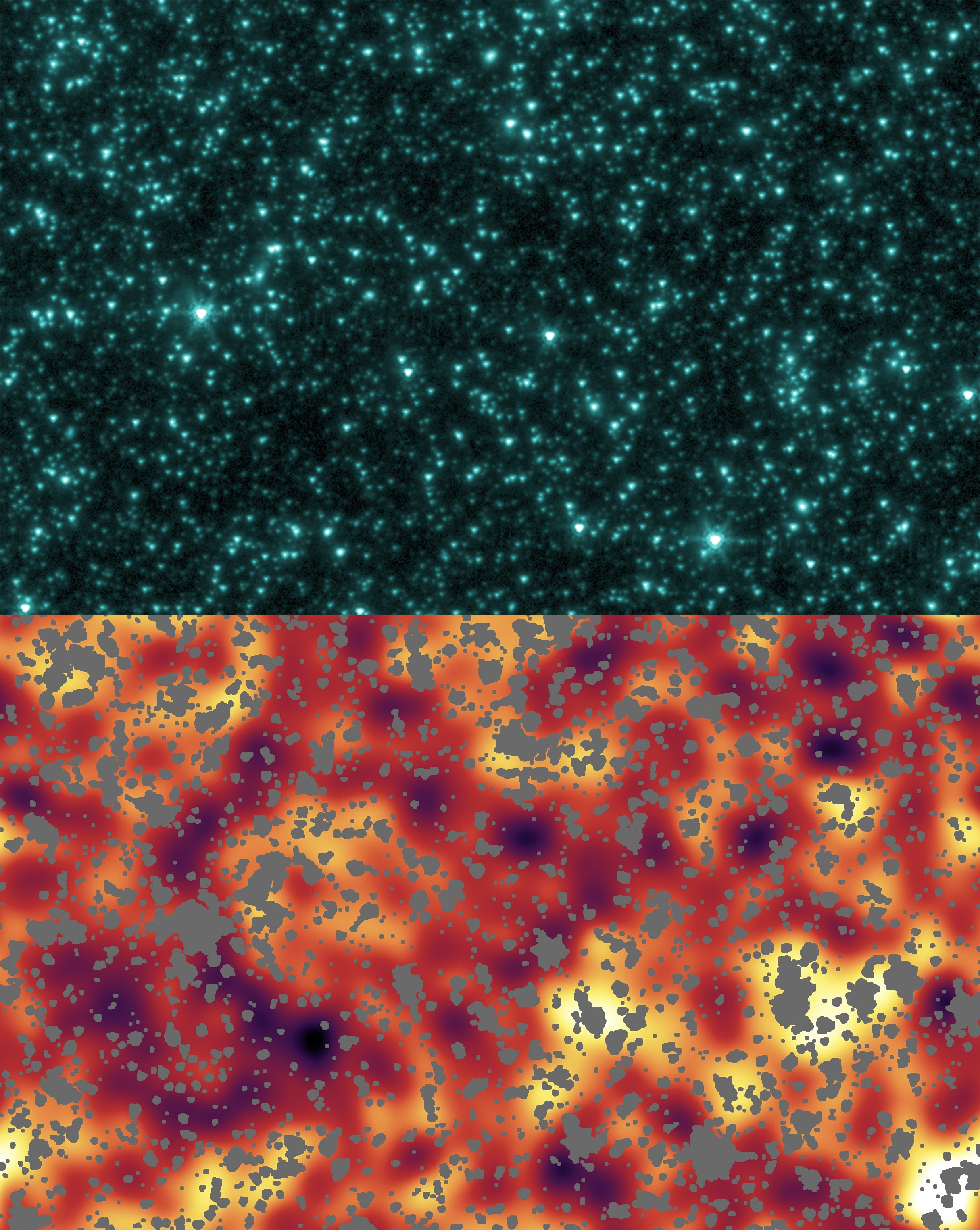 Name: Hubble Deep Field, Cosmic Infrared Background Author: NASA / JPL-CALTECH / A. KASHLINSKY (GSFC) Instrument: Spitzer Space Telescope, IRAC Release Date: 2006/12/18 Exposure Date: May 19, 2004 - May 26 2004 Exposure Time: 24 hours per pixel Wavelength: 3.6, 4.5, and 5.8 microns Position: RA: 12h36m49.50s Dec: 62d12m58.00s Description: Upper: Foreground objects; Lower: Background radiation, with foreground objects removed